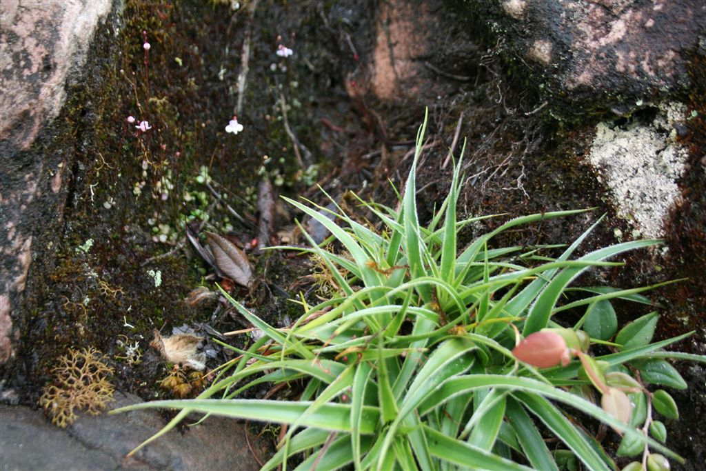 Connellia quelchii of mount Roraima, Venezuela